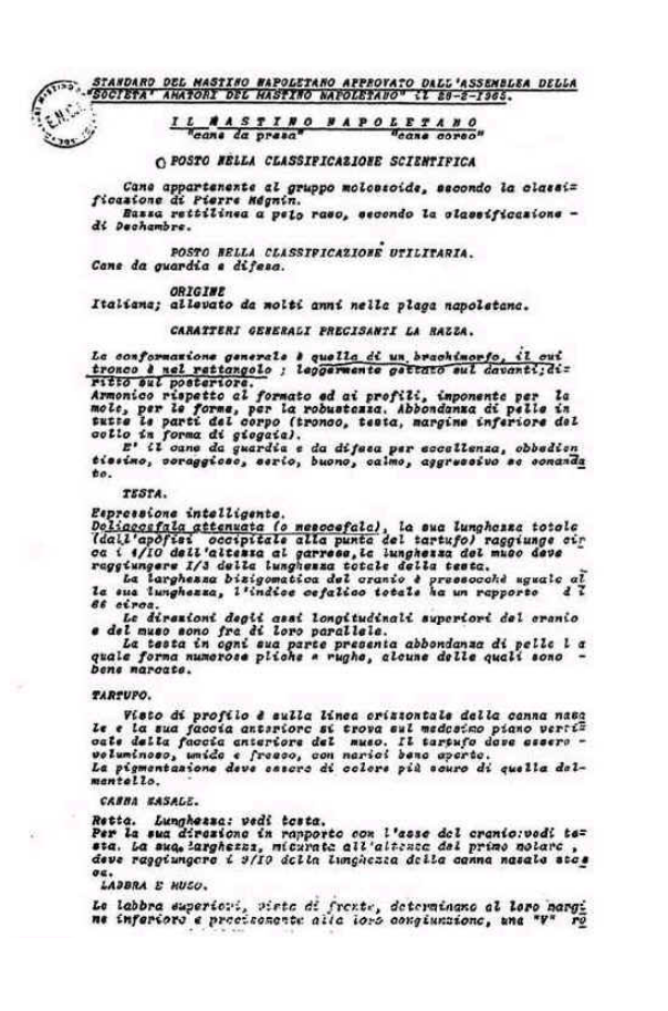 The scientific standard published for the neapolitan mastiff in february 26th, 1965 includes the synonyms "cane corso" and "cane da presa". The cane da presa meridionale (Italian for "southern catch dog") is the old, functional working variant of the neapolitan mastiff. Before 1965 there was no distinction between neapolitan mastiff, cane da presa and cane corso, these were simply three different names for the same dog. The modern neapolitan mastiff is unlike the original, a dog created by dog shows that suffers of hipertypes which bring the dogs health problems. Fans of the original mastino have started an organisation which is trying to gather the remaining specimens which would fit the standard previous to 1965 of the neapolitan mastiff. This is the second rescue of this proto-race. The first one was in 1946 after WWII which almost brought this working dogs from southern Italy to extinction.